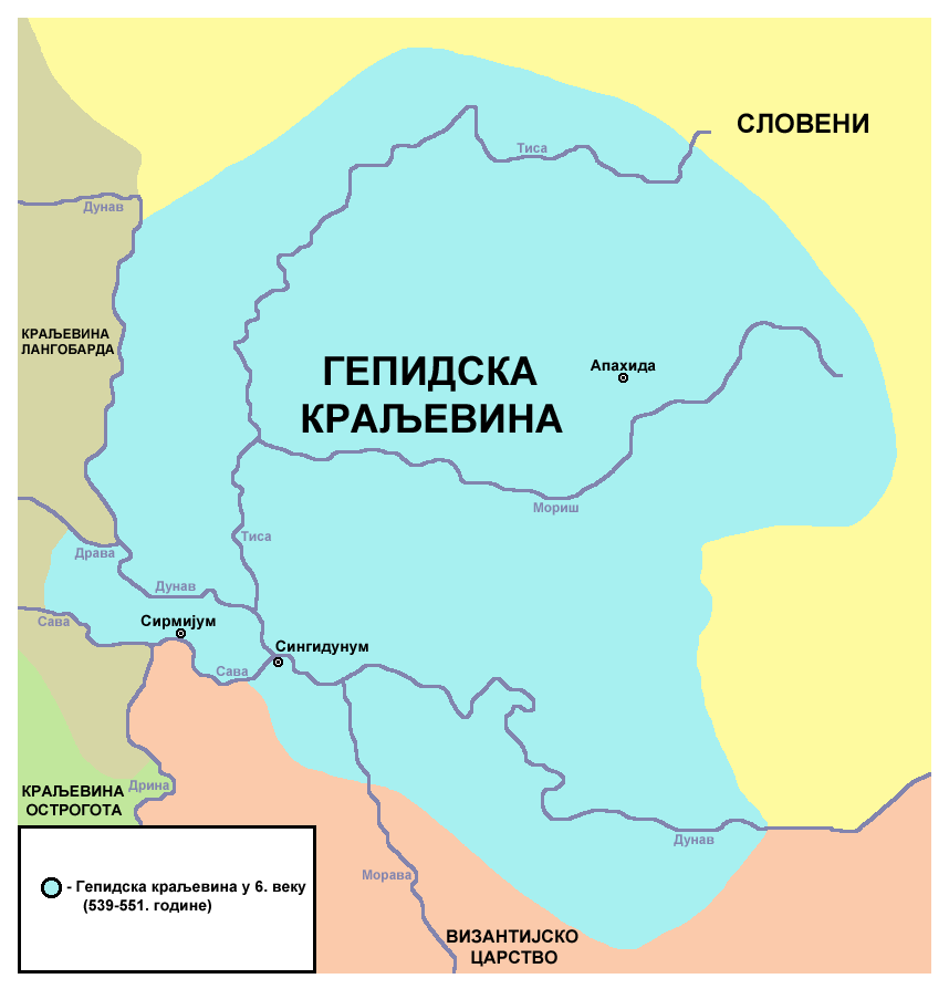 Kingdom of the Gepids in the 6th century (539-551).